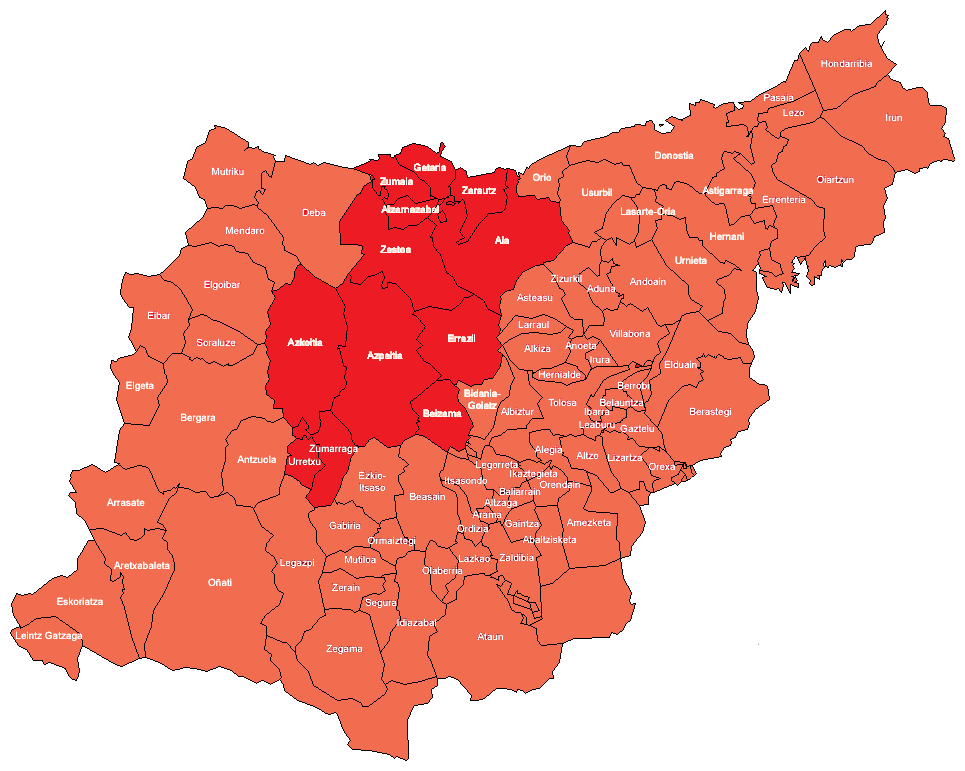 Linguistic map showing (in dark red) the municipalities where the Urola sub-dialect of the Basque language is spoken.